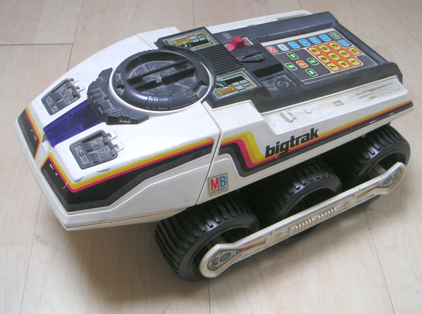 Photograph of a Big Trak from GB (White plastic, with small letters).